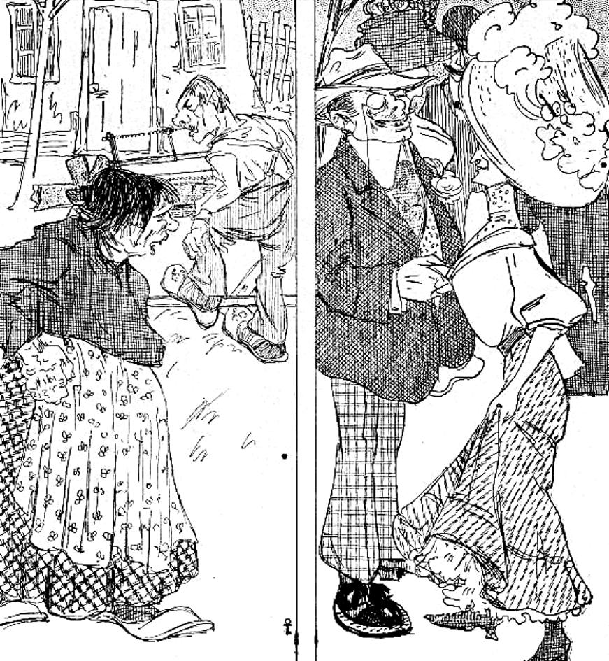 Cei cari fac pe râioşii ("People who act mangy"), cartoon in Furnica magazine. Fasonel ("Fussy Boy") or adevăratul Mitică ("The real-life Mitică") stopping over to eat at home, in a derelict part of Bucharest; and in the commercial hub, where he acts like a fashionable gentleman.